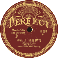 Some of These Days by Eddie Peabody, Perfect Records 1927.